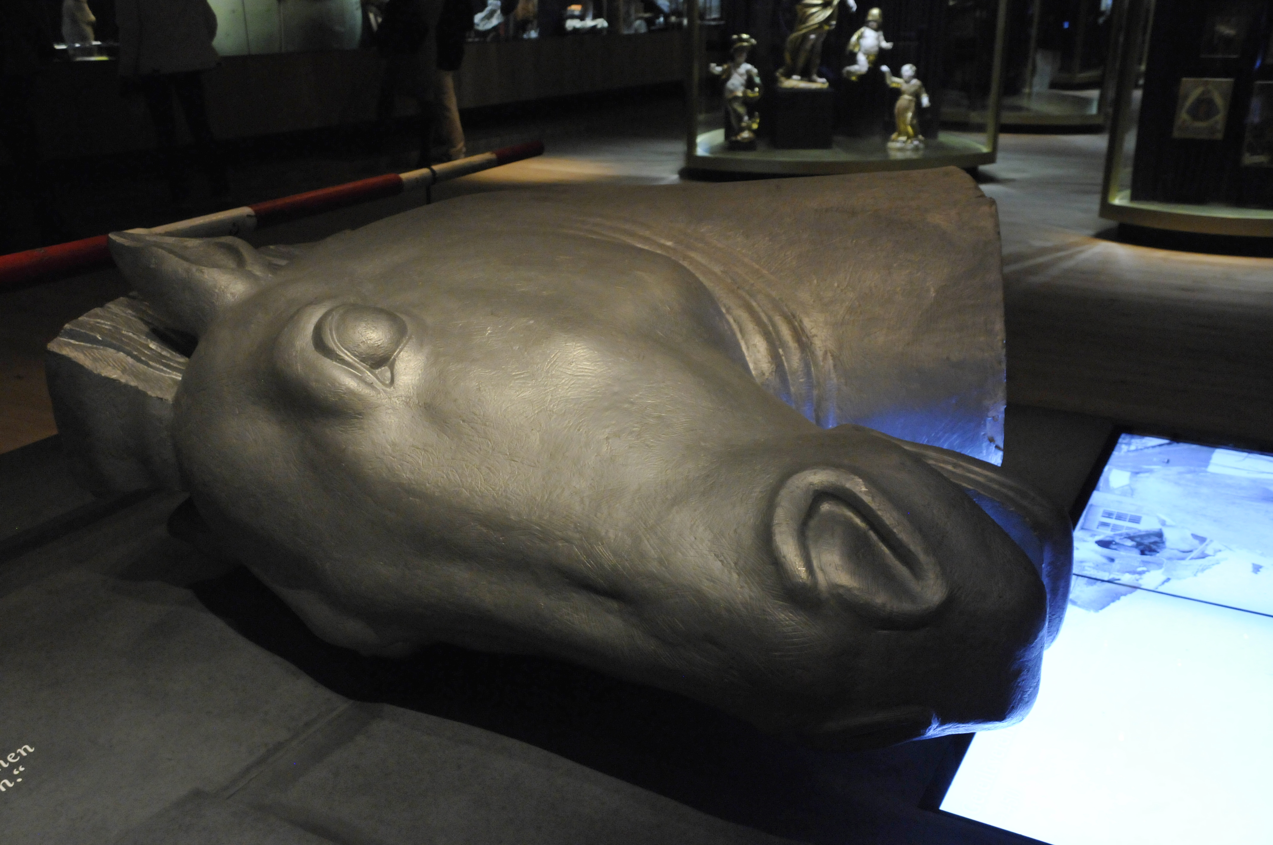 Part of monument in Barbian (near Ponte Gardena-Waidbruck-Pruca) exhibited at the museum Das Tirol Panorama in Innsbruck, Austria